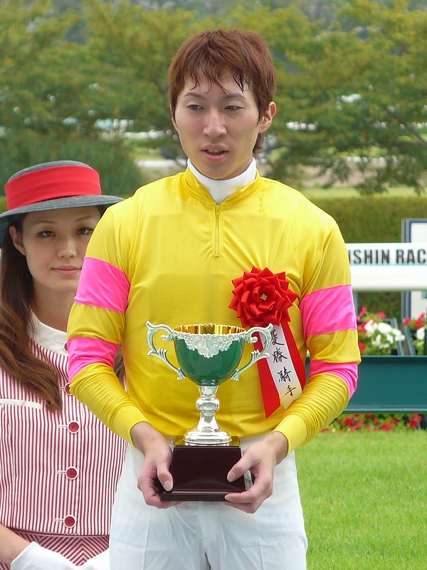 Tadashi-Kosaka20100920